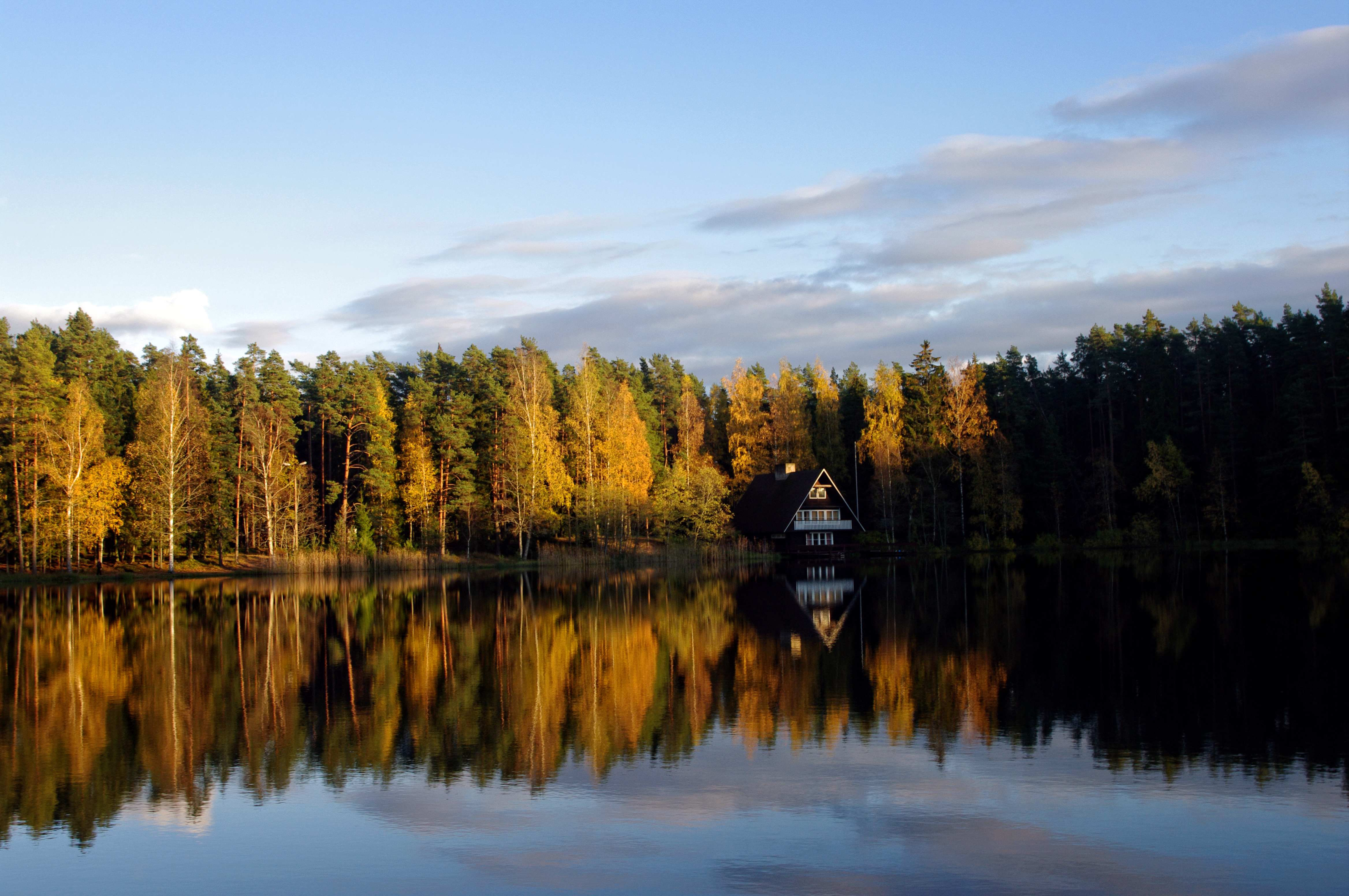 Viitna Linajärv